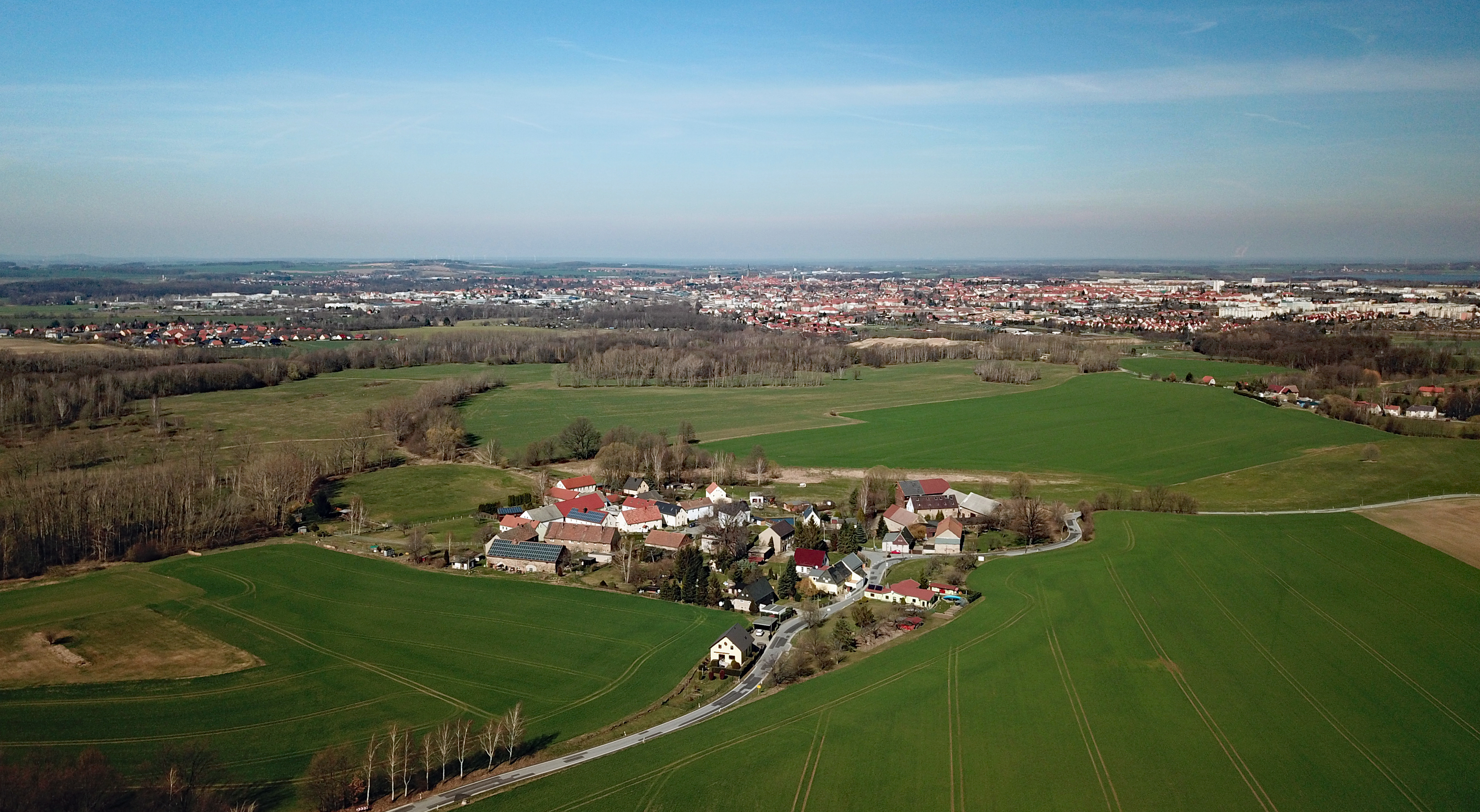 Grubditz (Kubschütz, Saxony, Germany) Hornjoserbsce: Powětrowy wobraz Hruboćic Dieses Foto wurde mit einem Quadcopter innerhalb der RMZ des Flugplatzes EDAB aufgenommen. Der Flugleiter wurde am Aufnahmetag telephonisch über Ort und Zeit informiert und hat zugestimmt. Der Flug erfolgte auf Grundlage der Allgemeinverfügung der Landesdirektion Sachsen zur Erteilung der Betriebserlaubnis für unbemannte Luftfahrtsysteme und Flugmodelle gemäß § 21a LuftVO und Zulassung von Ausnahmen von Betriebsverboten gemäß § 21b LuftVO für den Freistaat Sachsen.